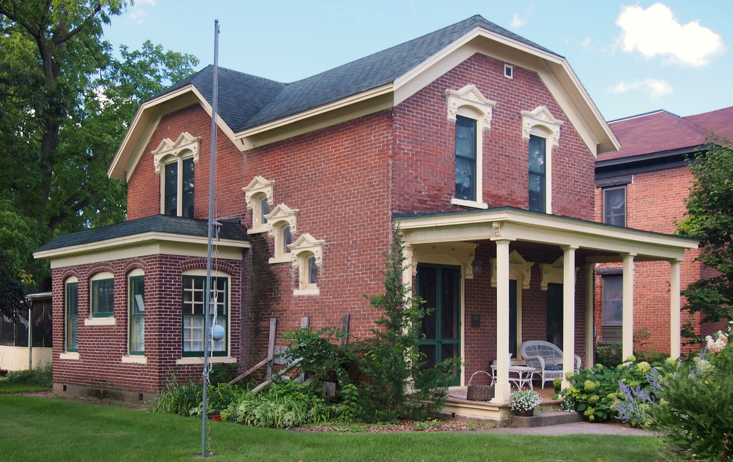 Clara and Julius Schmidt House, 418 E 2nd St, Wabasha, Minnesota, USA. Viewed from the east.